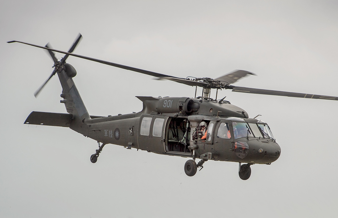 ROCA UH-60M Black Hawk